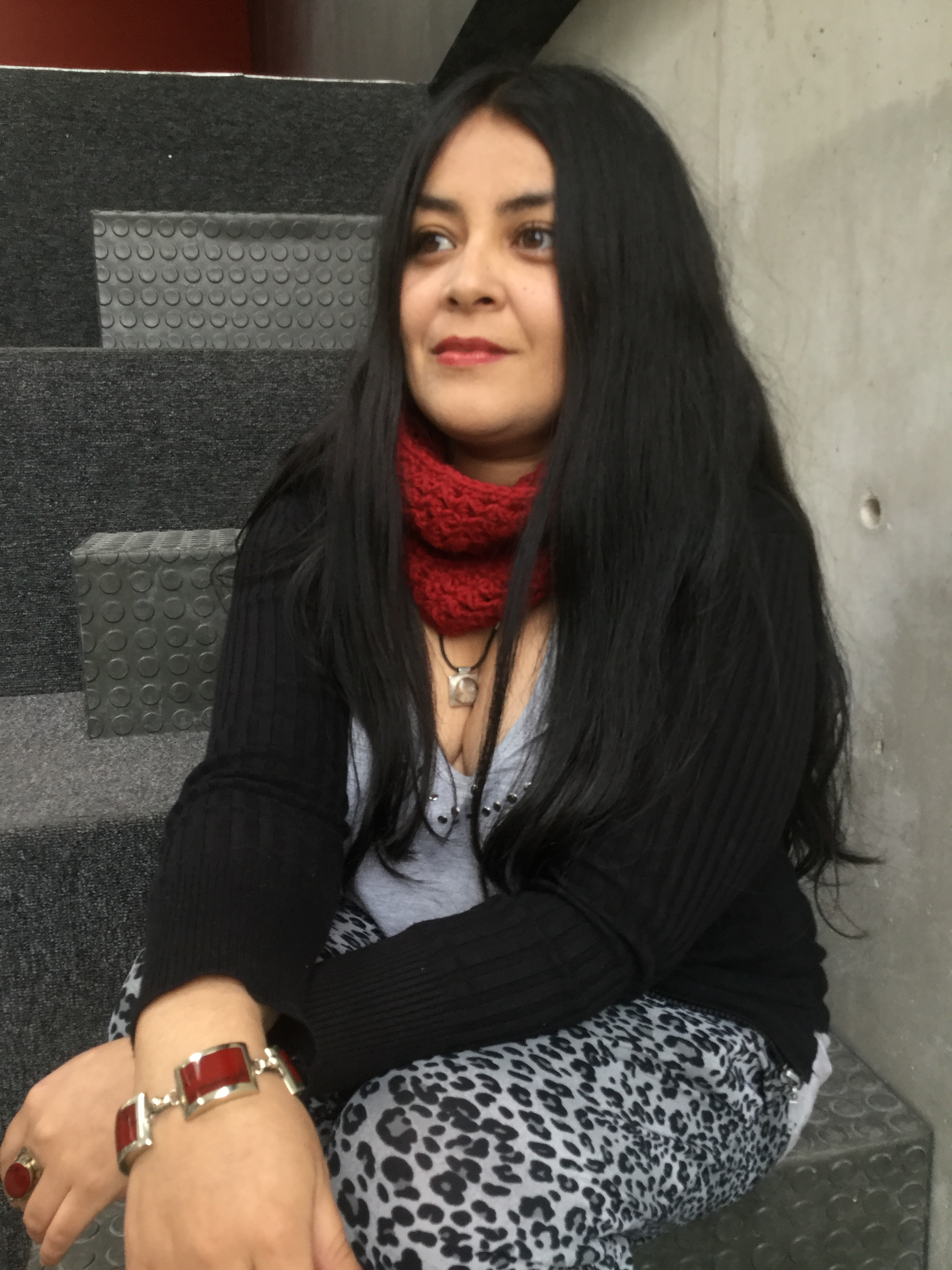 Mexican Visual Artist Ruth Vigueras